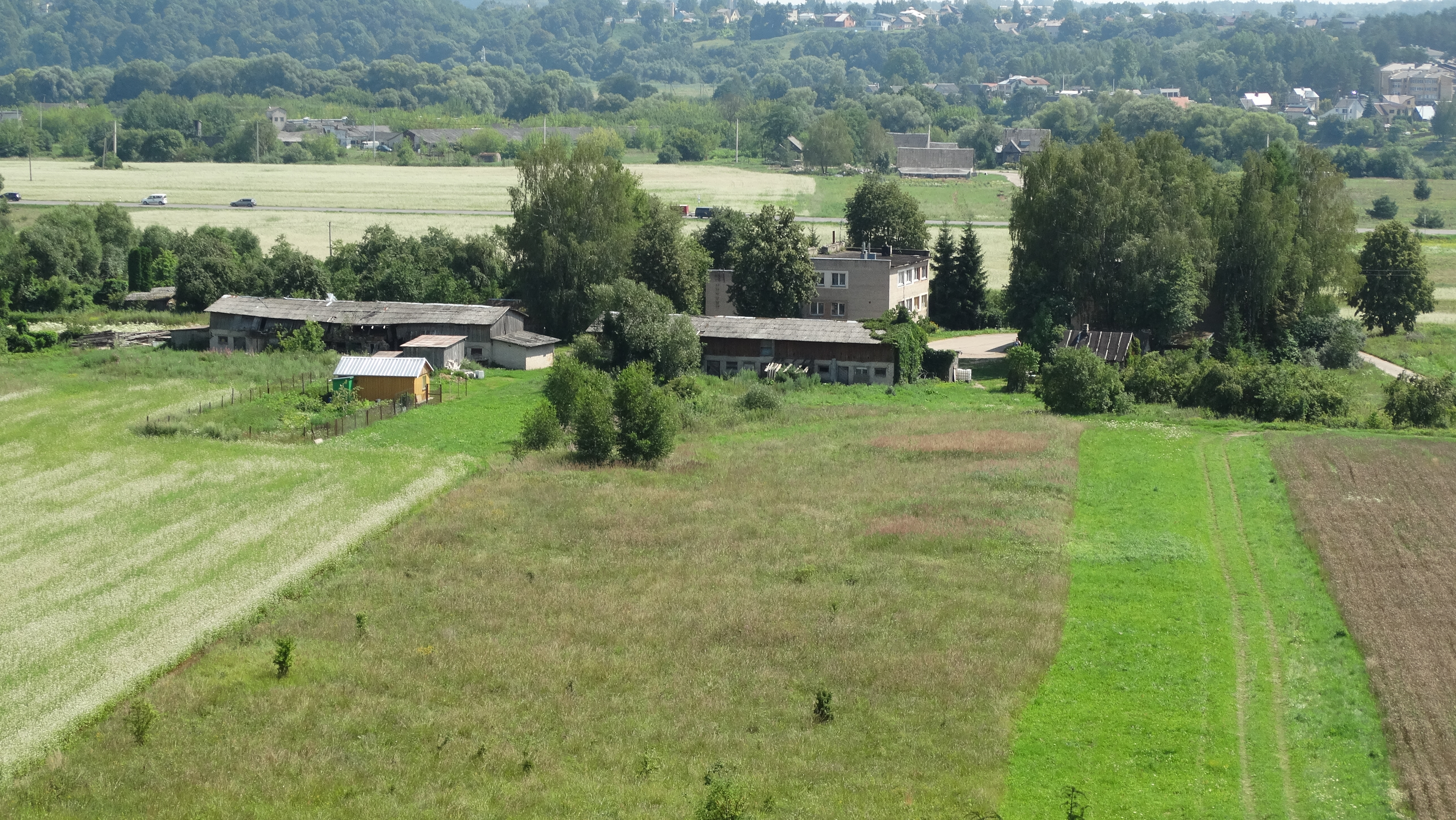 Masteikiai, Kaunas district, Lithuania